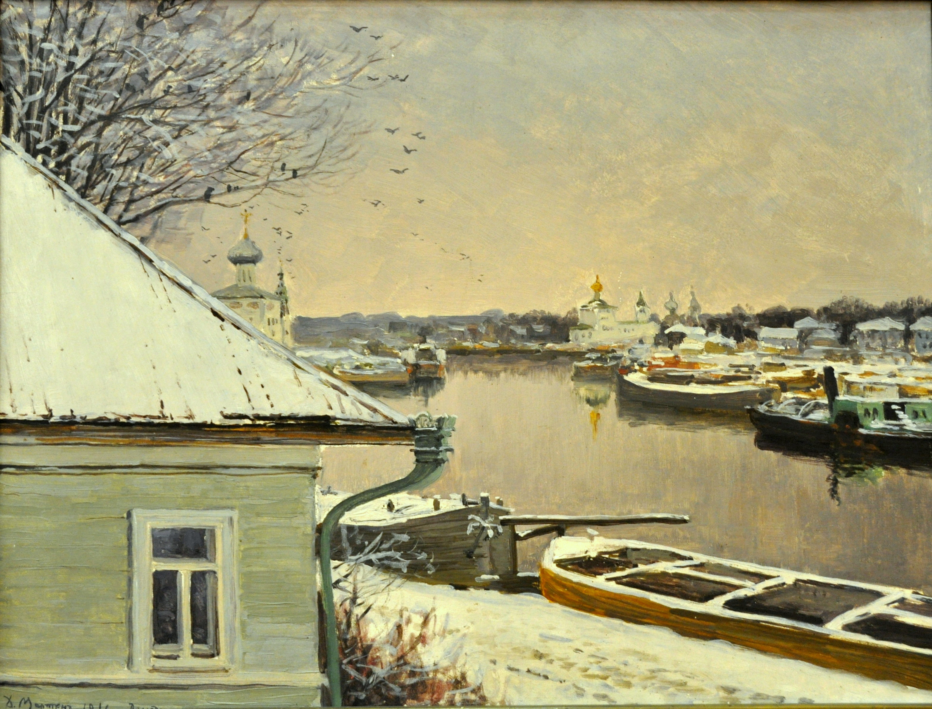 Vologda. First Snow. 1916. Oil on cardboard, 49.6 x 66 cm